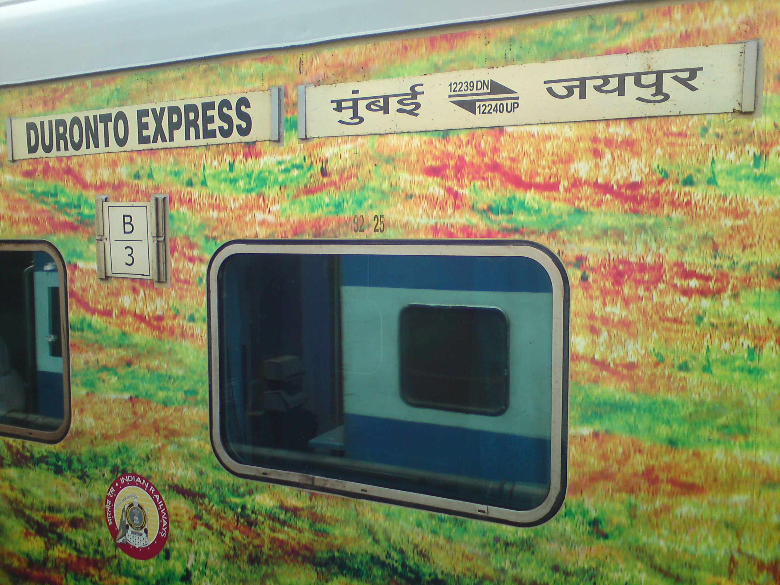 Jaipur Duronto Express at Jaipur Junction